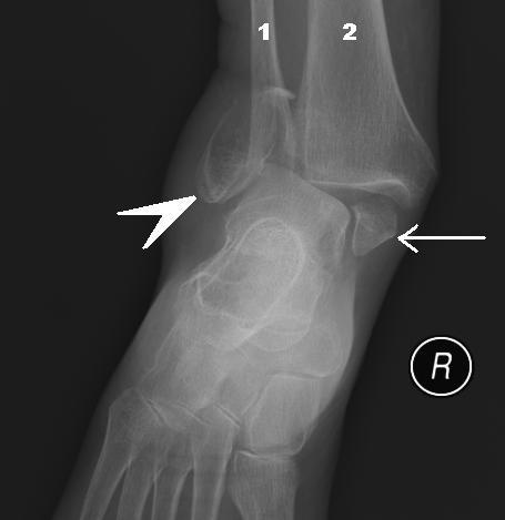 Bimalleolar fracture and right ankle dislocation on X-ray (anteroposterior). Both the end of the fibula (1) and the tibia (2) are broken and the malleolar fragments (arrow: medial malleolus, arrowhead: lateral malleolus) are displaced.